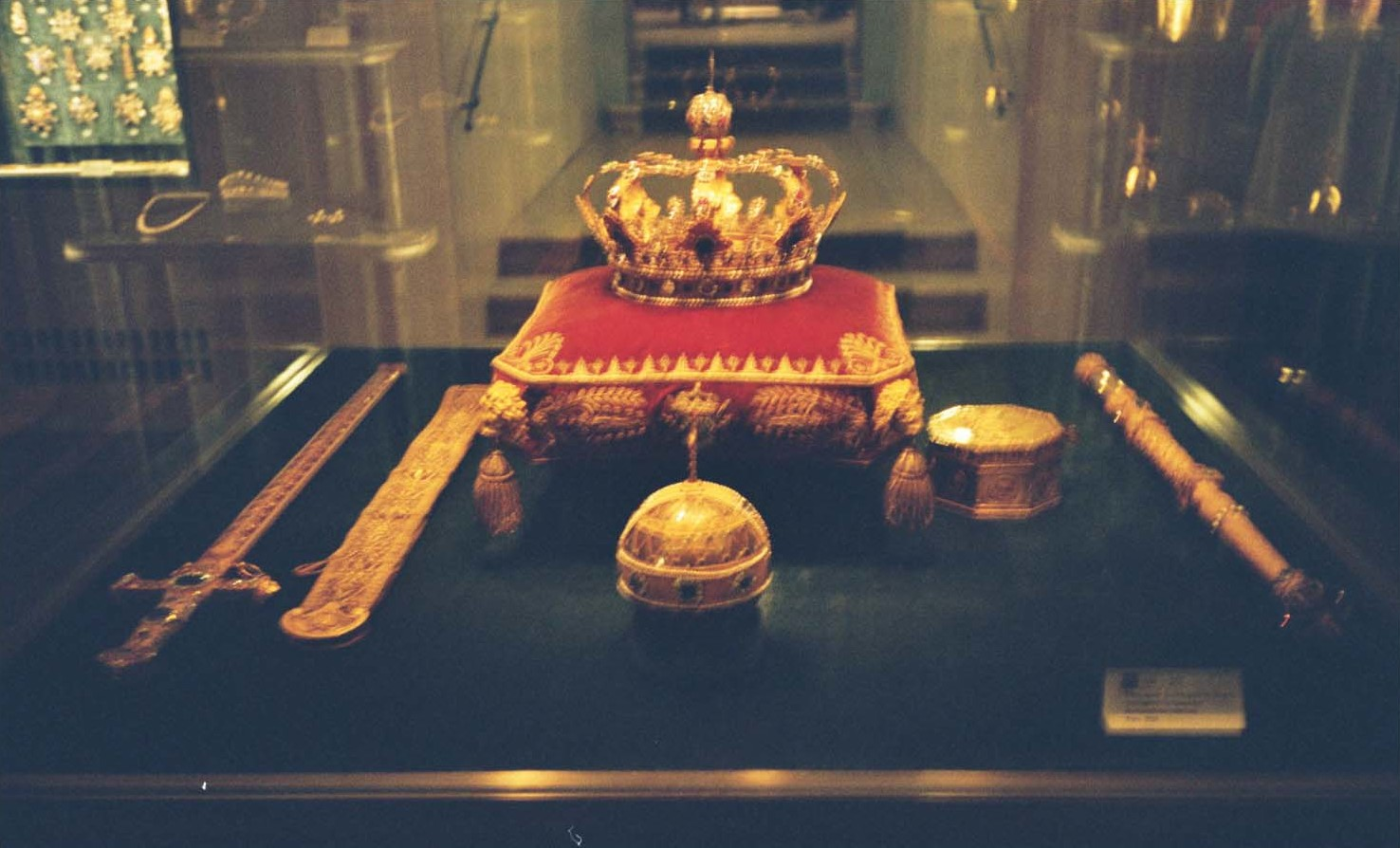 Bavarian Crown and Regalia, Royal Treasury Munich